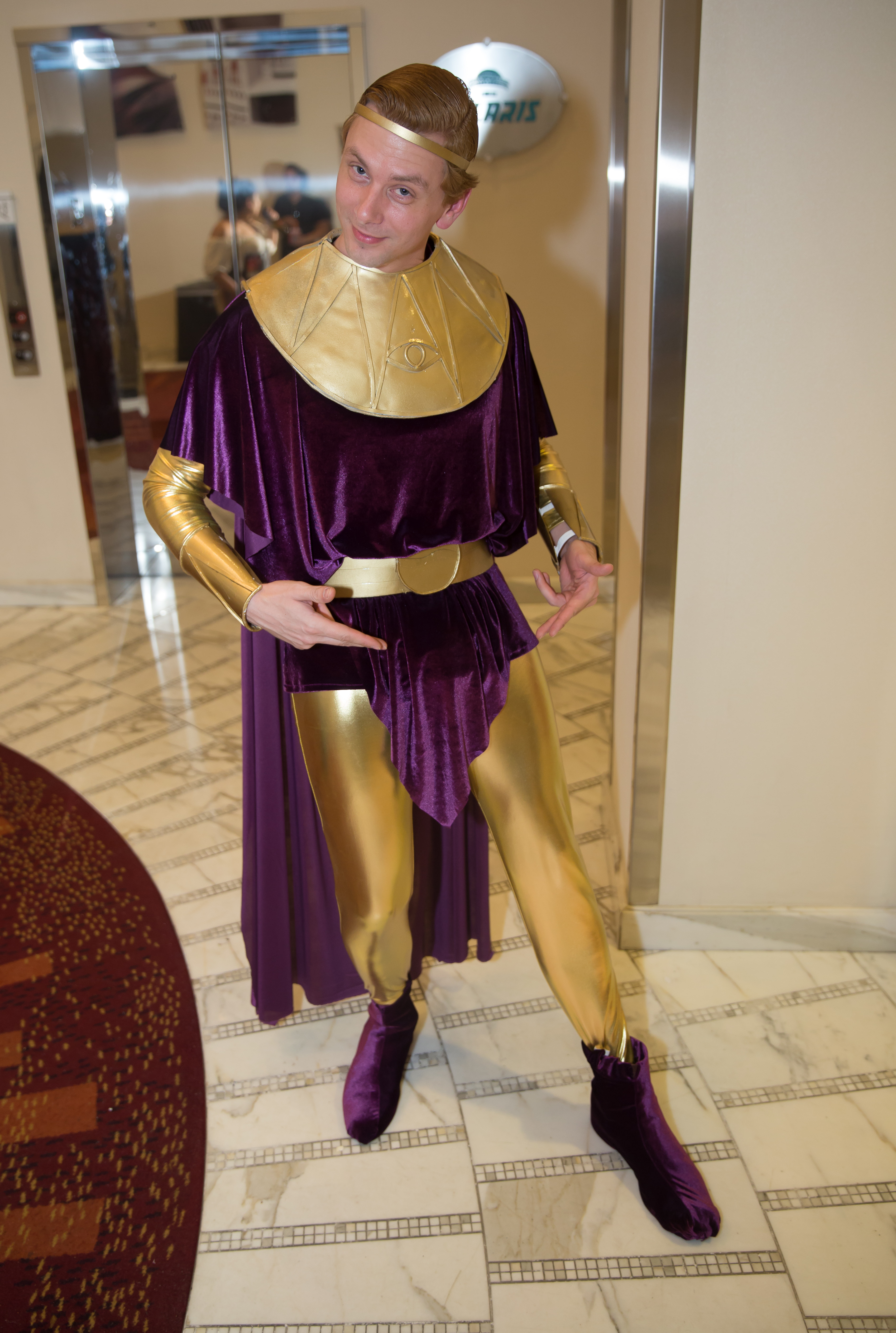 Adrian Veidt pointing at his junk Cosplay at Dragon*Con 2015.